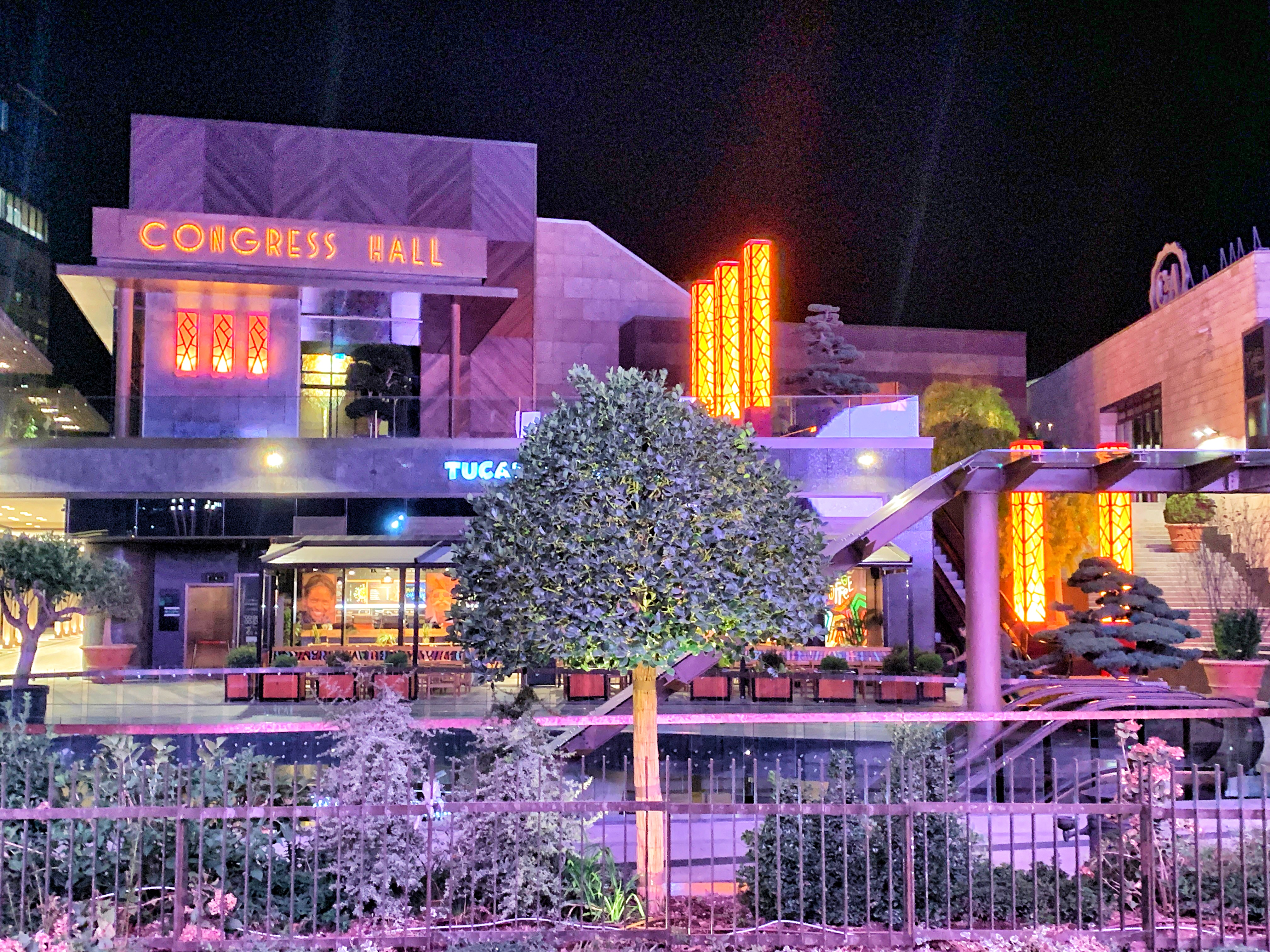 Iulius Town Timișoara at night, September 2019